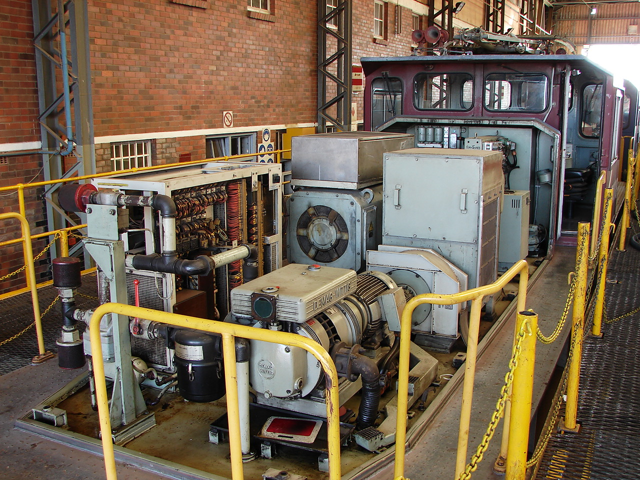 Class 8E no. E8008 with hood removed, no. 1 end, Beaconsfield Depot, Kimberley